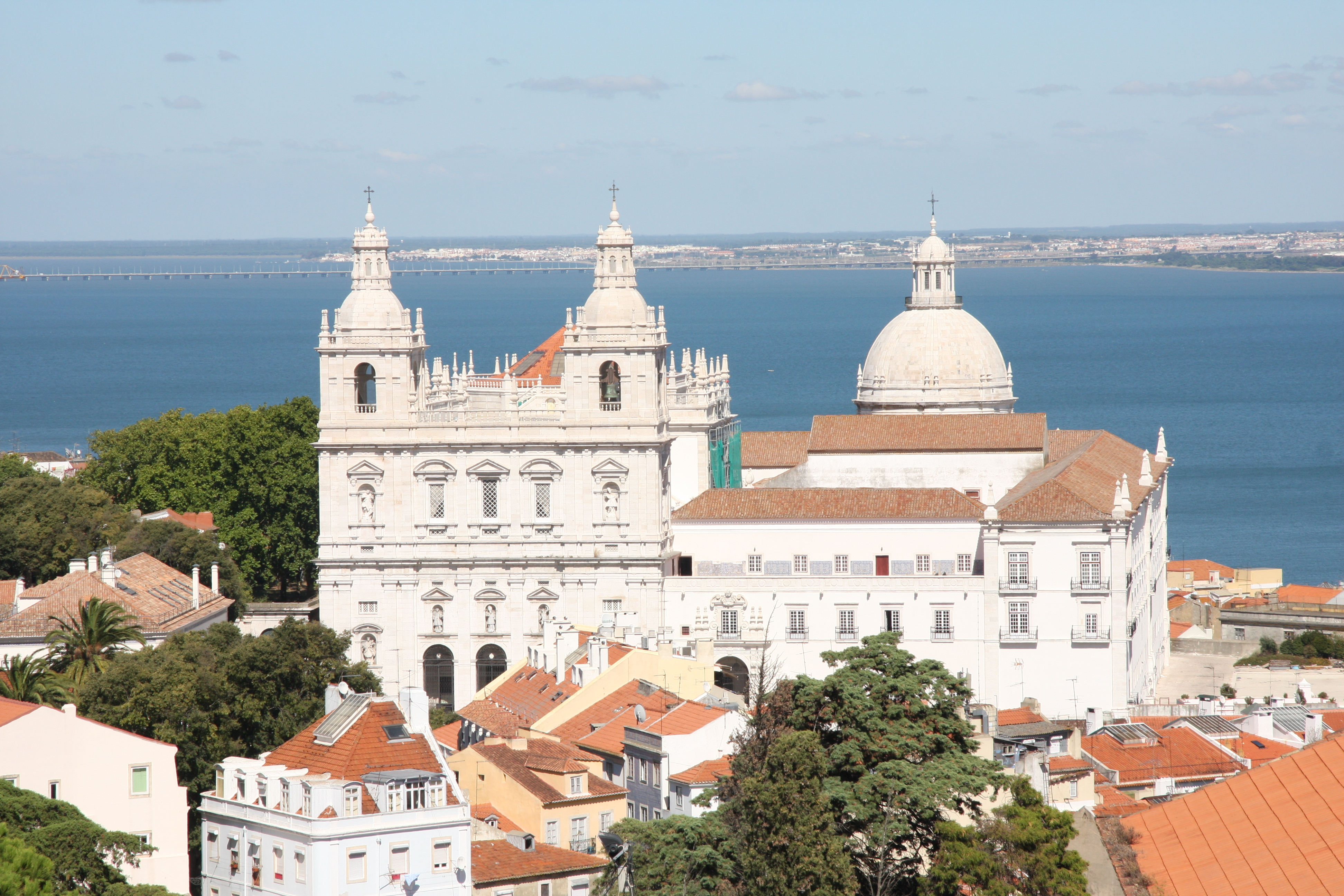 Mosteiro Sao Vicente de Fora "Monastery of St. Vincent Outside the Walls" seen from the castle